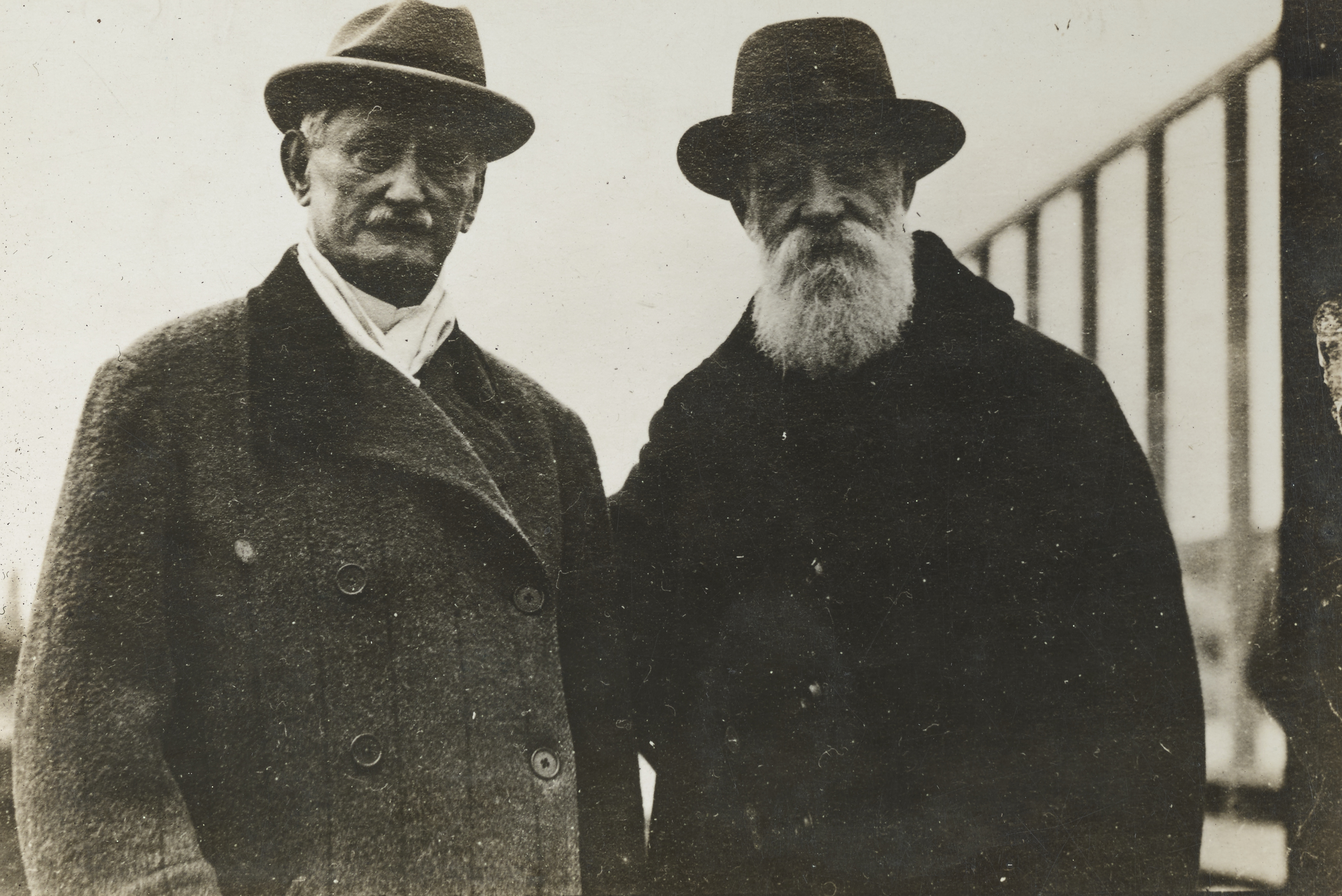 Scope and content: Photographer: A.R.C.